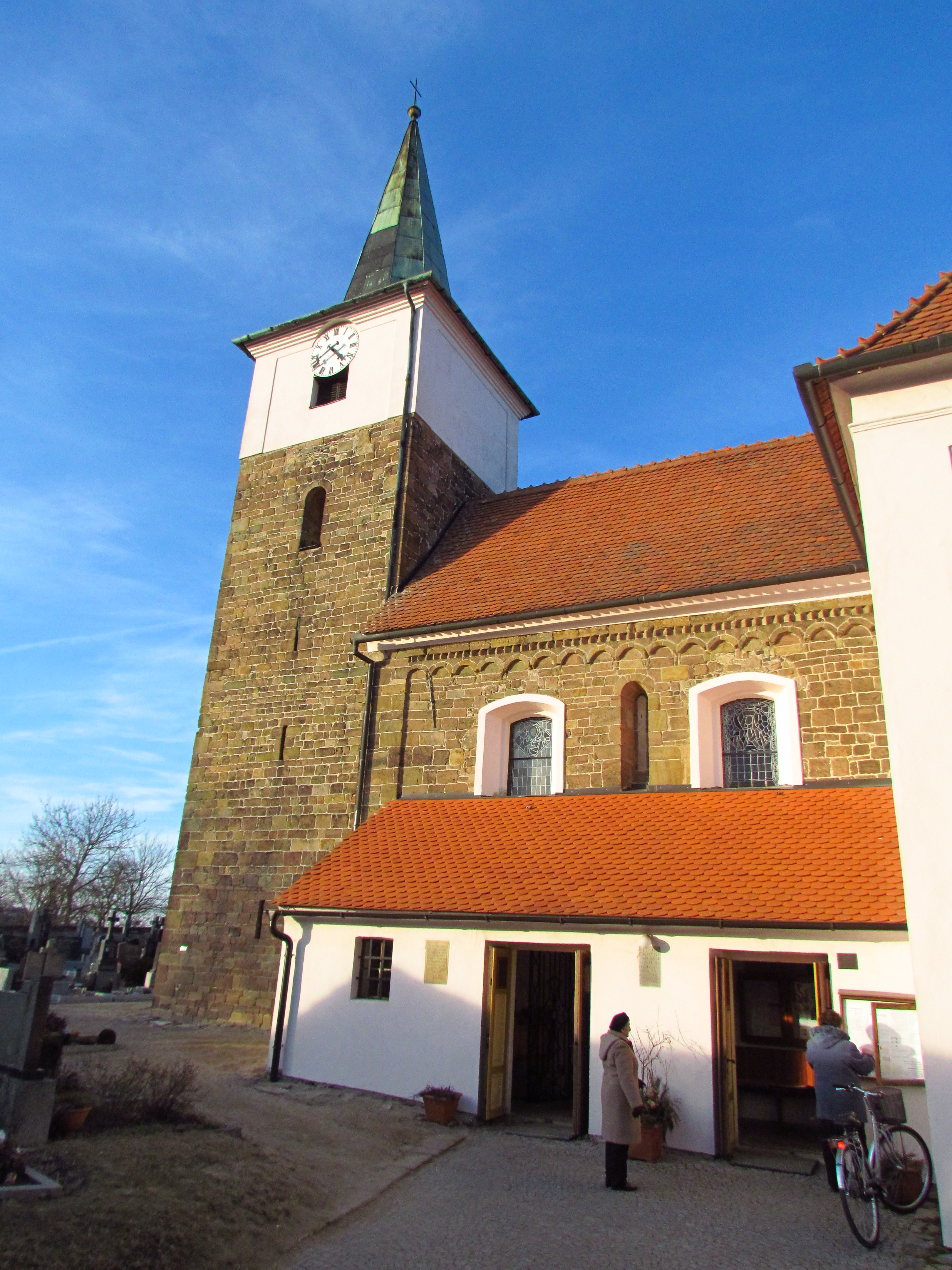 Side view of Church of the Assumption in Březník, Třebíč District.